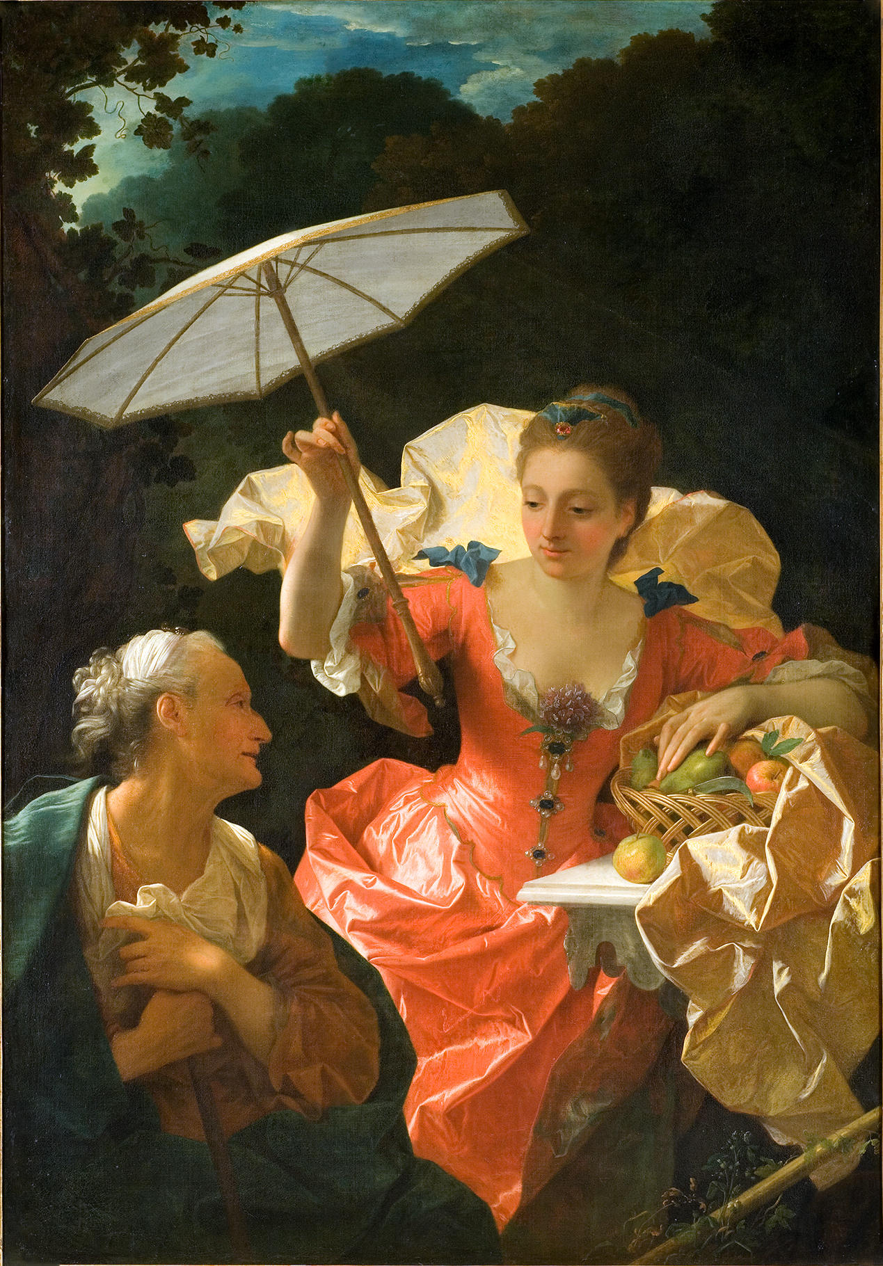 The nymph Pomone was seduced by Vertumne, who disguised himself as an old woman to get closer to her.